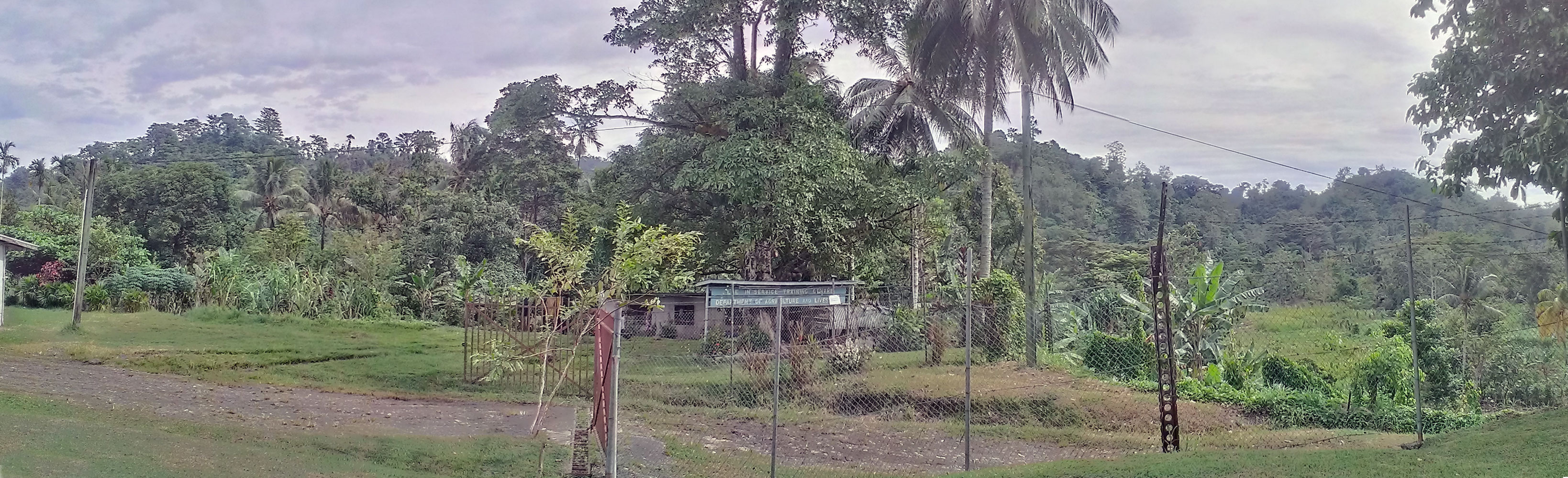 View facing East -front gate of the Lae In Service Training Centre on foothills of Atzera Range